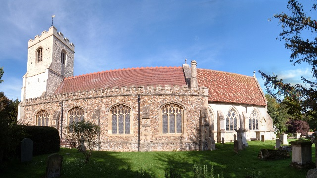 Church of St Andrew and St Mary at Grantchester A semi-panoramic view of the Church of St Andrew and St Mary at Grantchester.